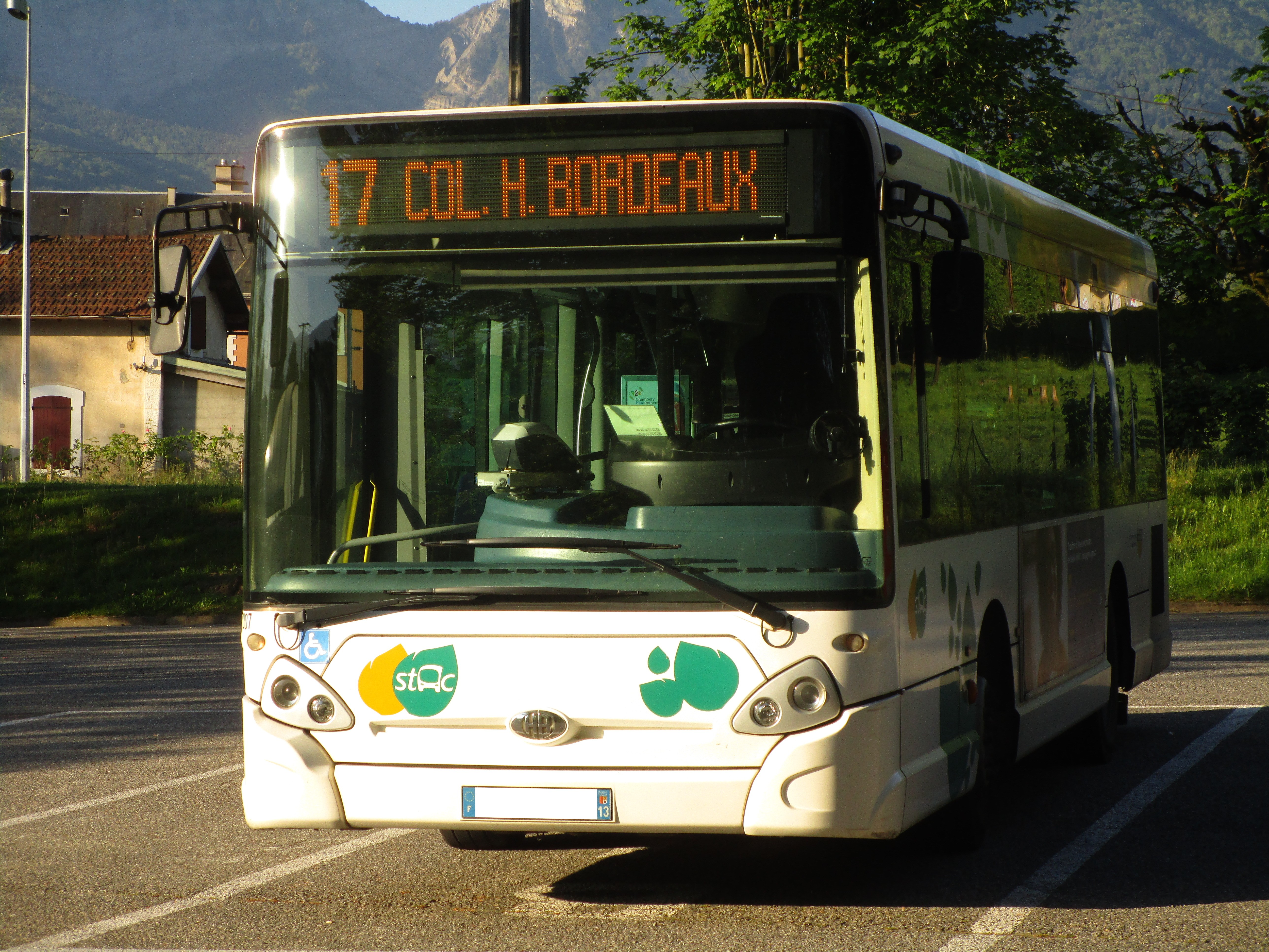 The Heuliez GX 127 n°7007 of Transavoie, on the line 17 of the Stac (Monzin, Vimines↔Collège Henry Bordeaux, Cognin), in front of the Collège Henry Bordeaux, in Cognin, on May 17, 2017.